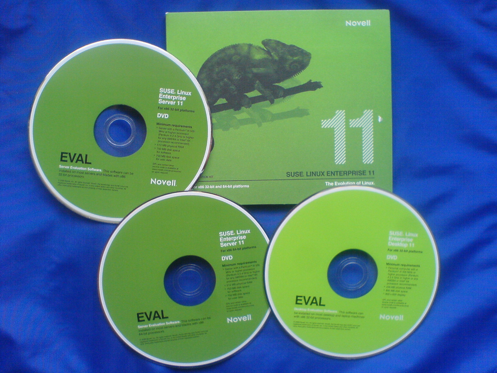 SUSE Linux Enterprise Server 11 installation DVD-ROM discs.